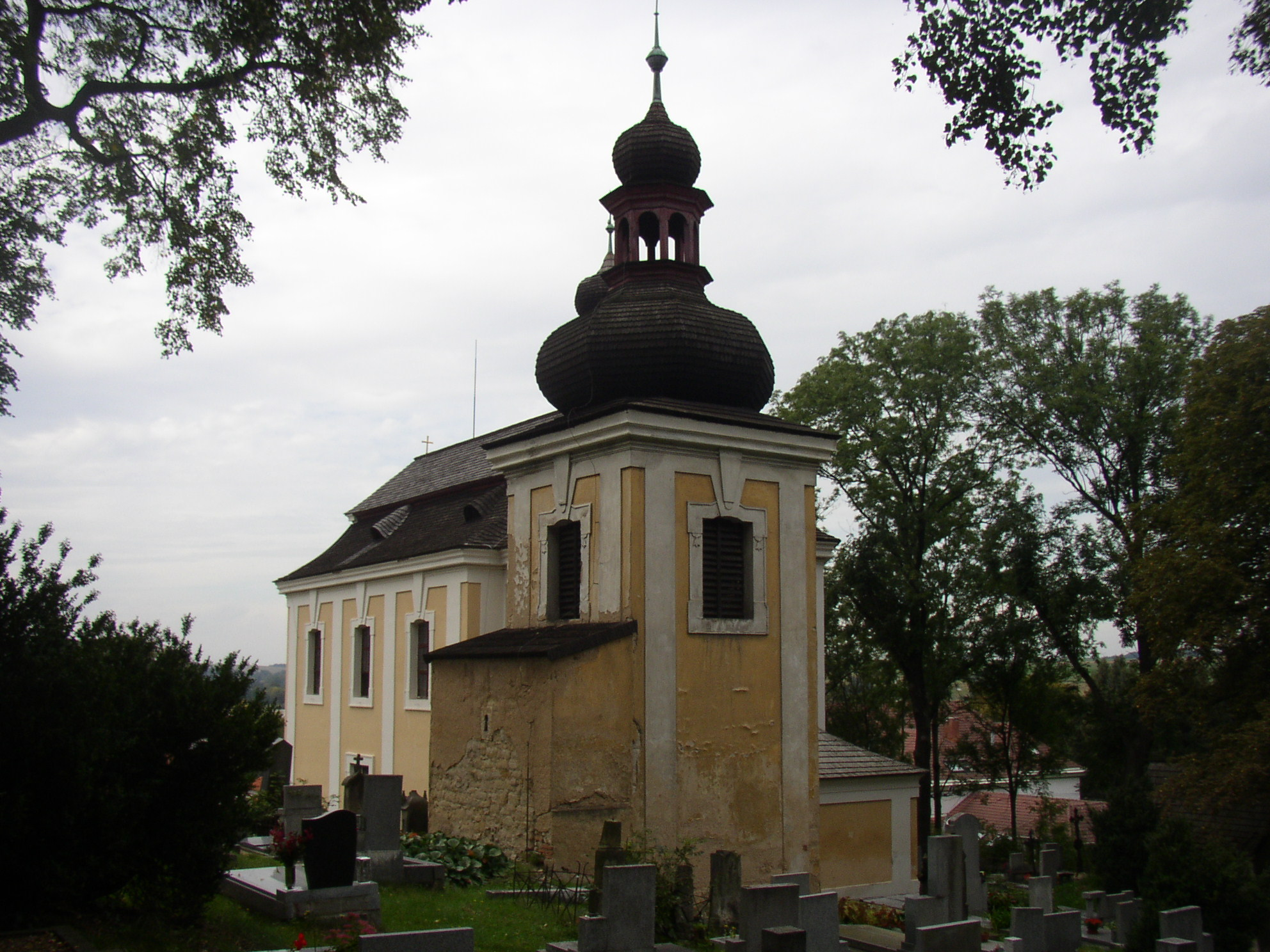 Bell tower next to church of the Nativity of St. John the Baptist in Zeměchy, suburb of Kralupy nad Vltavou, Czech Republic.